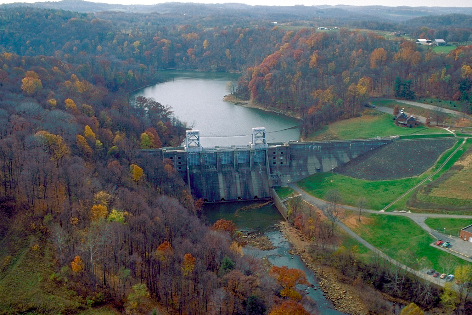 Loyalhanna Lake and Dam on the Loyalhanna Creek in Westmoreland County near Saltsburg, Pennsylvania, USA. View is upriver to the west-southwest. The U.S. Army Corps of Engineers constructed the dam for flood control on Loyalhanna Creek.